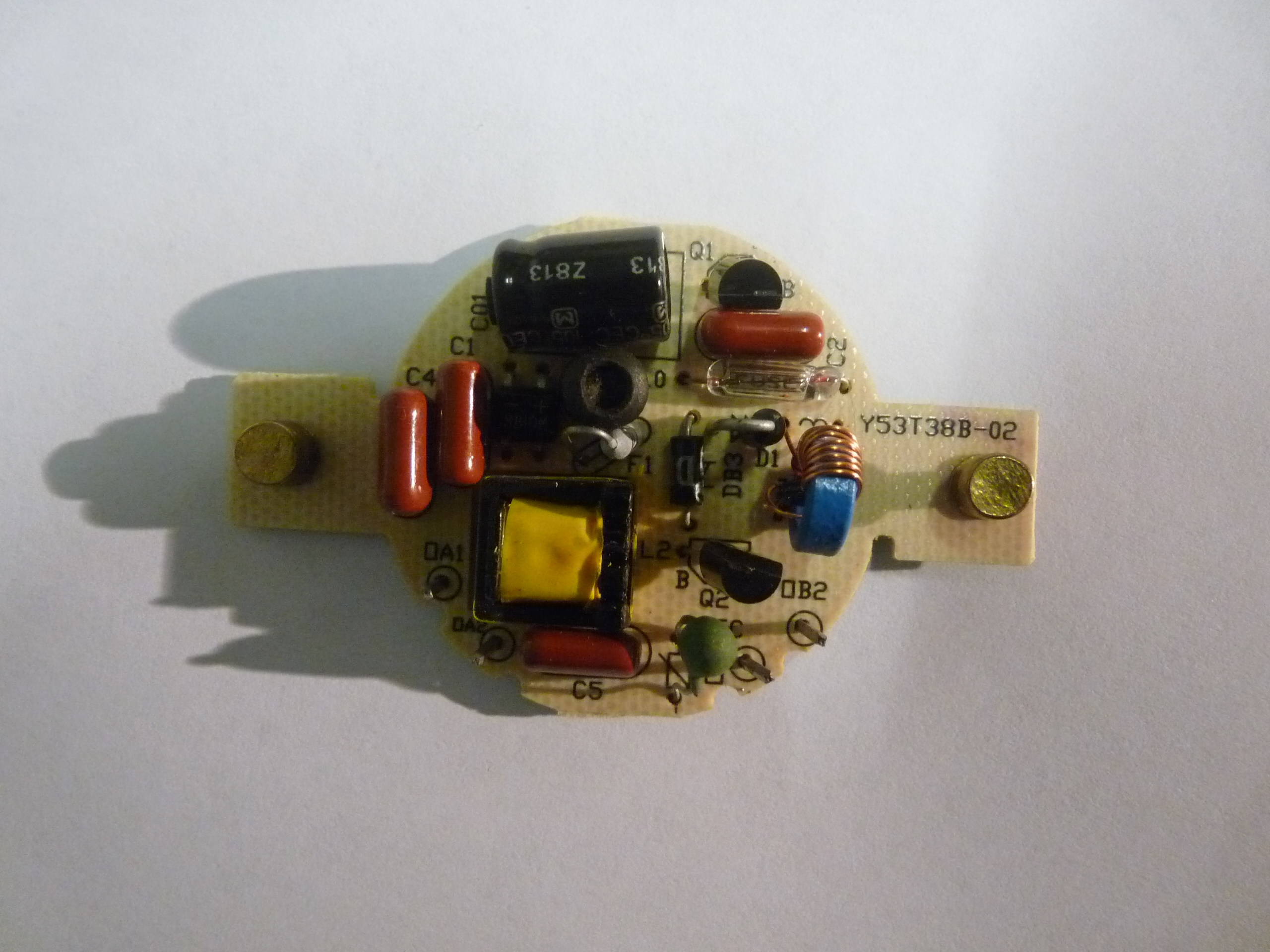 G53 electronic ballast